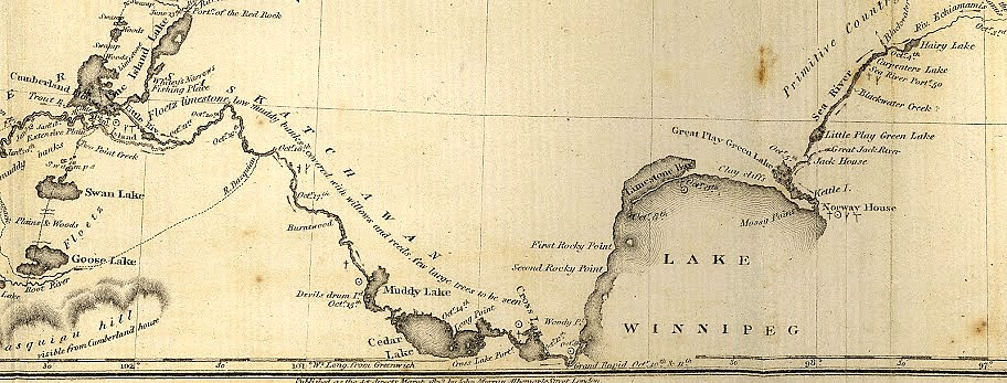 A portion of John Franklin's 1823 map from Norway House to Cumberland House.